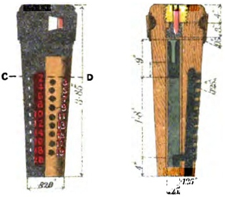 Diagrams depicting British "Boxer" 9 second wood time fuze for artillery shells.